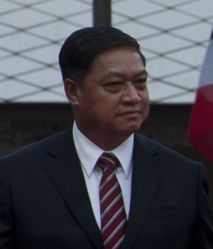 Thailand's Minister of Defence Sukampol Suwannathat pictured while escorting US Secretary of Defense Leon E. Panetta (not shown) as he inspects the honor guard in Bangkok, Thailand, on Nov. 15, 2012.